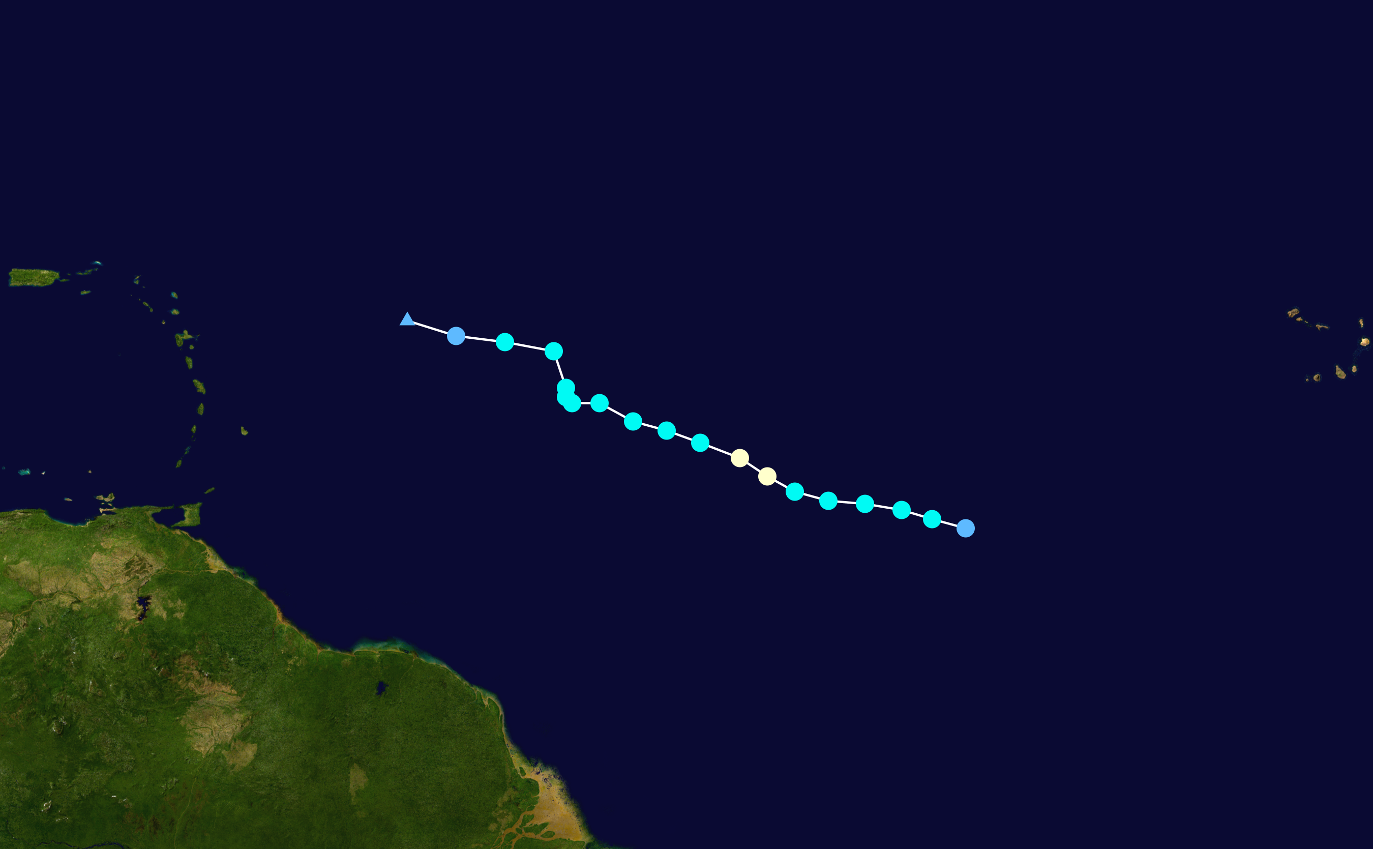 Track map of Hurricane Karen of the 2007 Atlantic hurricane season. The points show the location of the storm at 6-hour intervals. The colour represents the storm's maximum sustained wind speeds as classified in the Saffir–Simpson scale (see below), and the shape of the data points represent the nature of the storm, according to the legend below. Saffir–Simpson scale Tropical depression≤38 mph≤62 km/h Category 3111–129 mph178–208 km/h Tropical storm39–73 mph63–118 km/h Category 4130–156 mph209–251 km/h Category 174–95 mph119–153 km/h Category 5≥157 mph≥252 km/h Category 296–110 mph154–177 km/h Unknown Storm type Tropical cyclone Subtropical cyclone Extratropical cyclone / Remnant low / Tropical disturbance / Monsoon depression